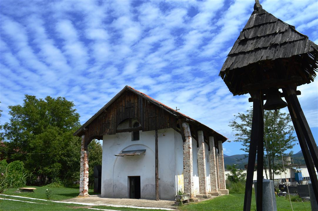 Raska Municipality - Church of St. Nicholas in Baljevac